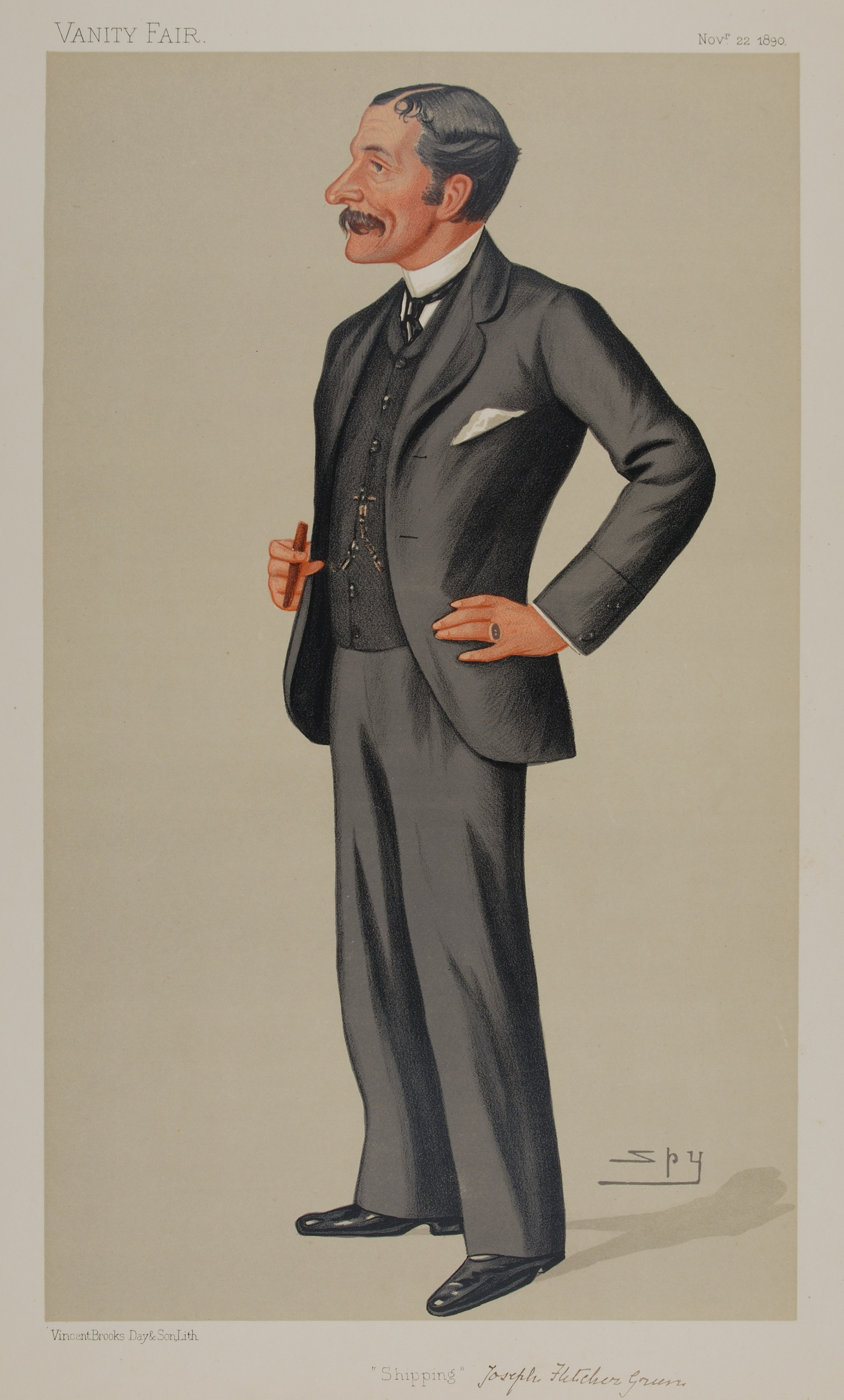 Men of the Day No. 490: Caricature of Joseph Fletcher Green (1846 - 1923). Green was a rugby halfback, played in England's first rugby international against Scotland in 1871, in which he sustained a knee injury which ended his career. Ship builder and designer with the family firm. Caption read "Shipping".